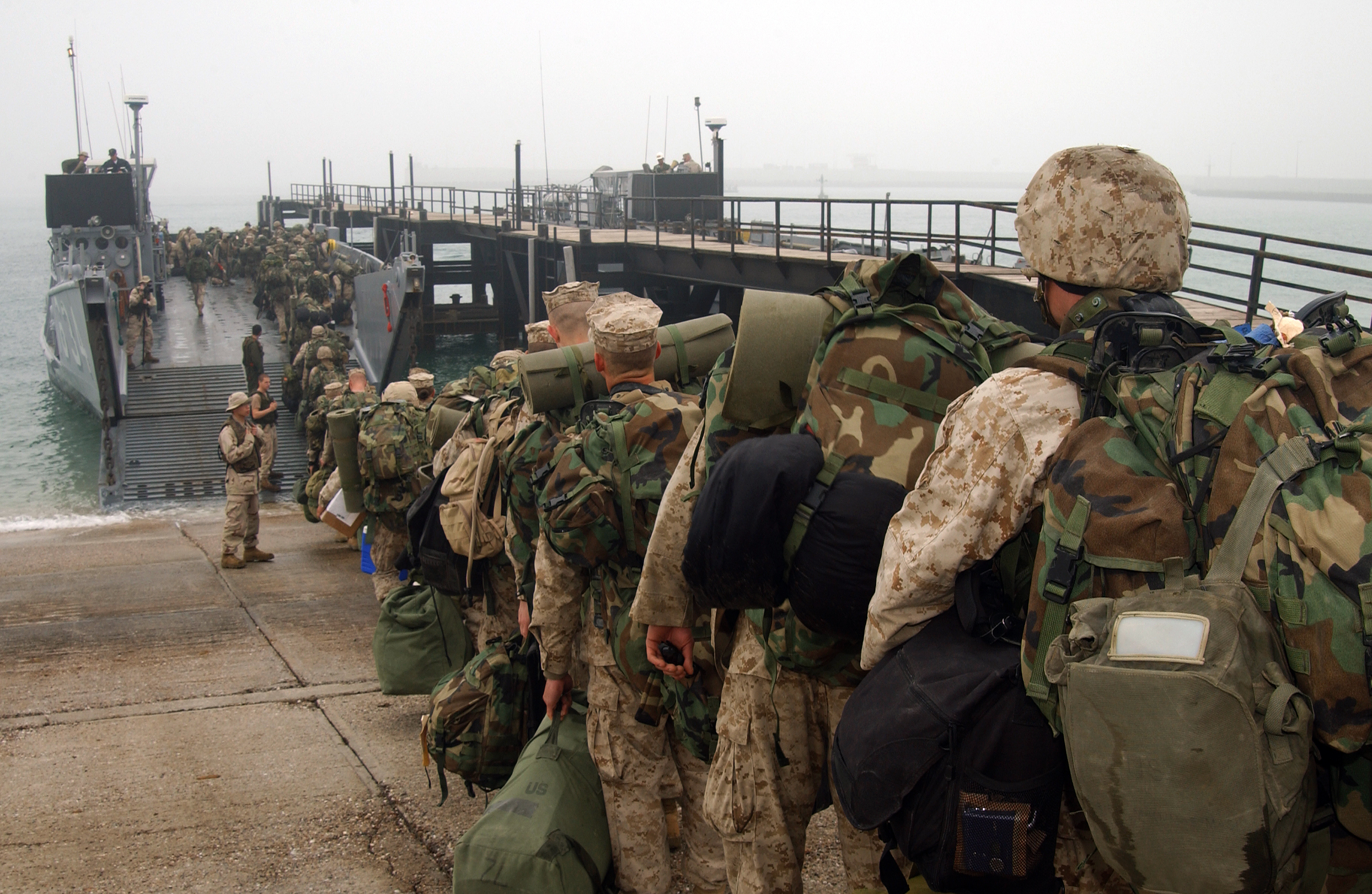 Kuwait Naval Base, Kuwait (Feb. 26, 2005) - Marines assigned to the 31st Marine Expeditionary Unit (MEU) file aboard a Landing Craft Utility (LCU), assigned to Assault Craft Unit One (ACU-1), on board Kuwait Naval Base, Kuwait. The LCU will deliver the Marines, who have been forward deployed in Iraq since July 2004, to the amphibious dock landing ship USS Harpers Ferry (LSD 49). Harpers Ferry is part of Expeditionary Strike Group Three (ESG-3) and is currently deployed to the Persian Gulf in support of Operation Iraqi Freedom (OIF). U.S. Navy photo by Photographer's Mate 1st Class Richard J. Brunson (RELEASED)